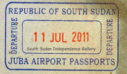 South Sudan passport stamp